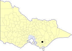 Location of the City of Moe within Victoria.